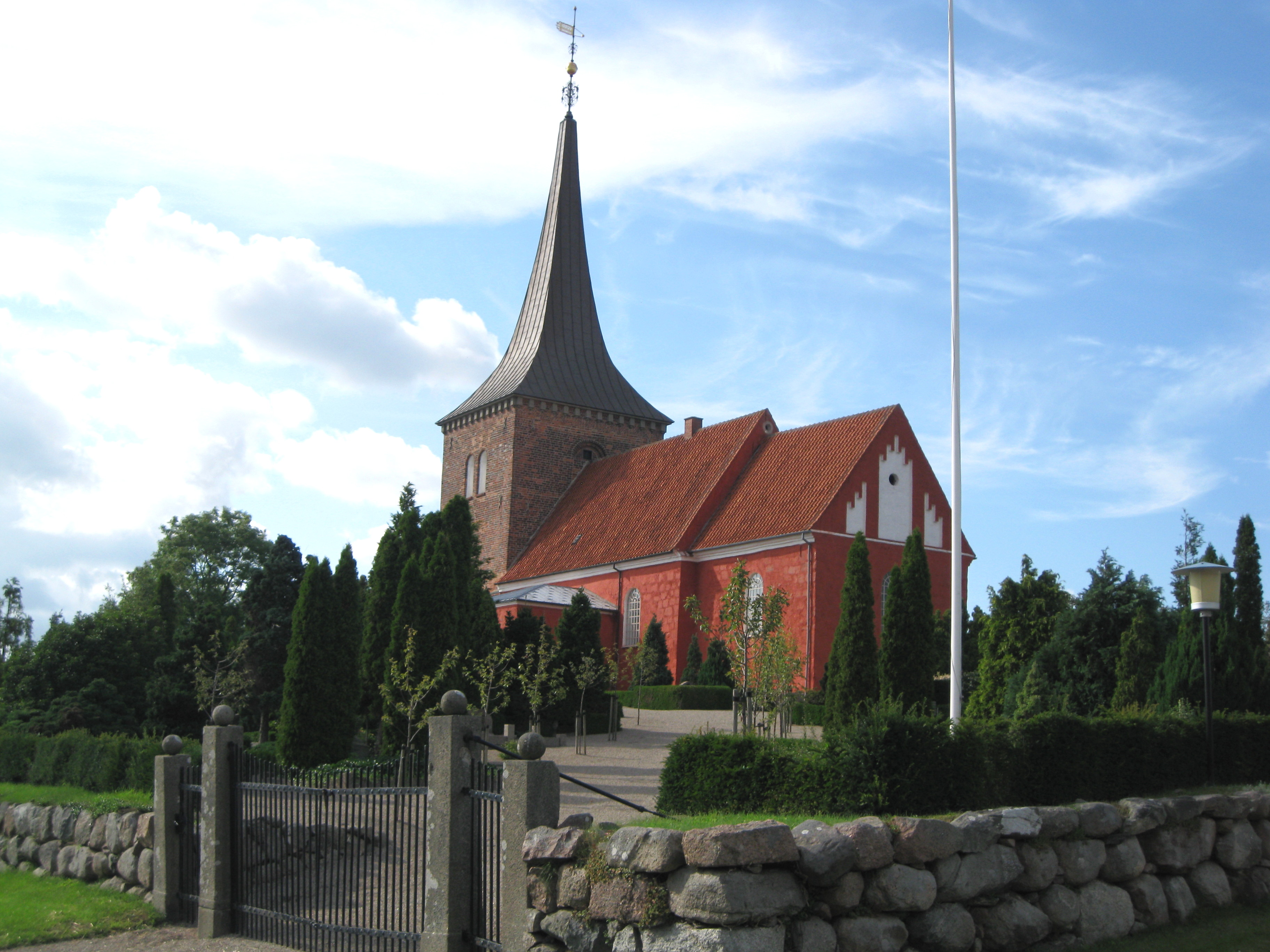 The church "Fuglse Kirke" located on the island Lolland in east Denmark.